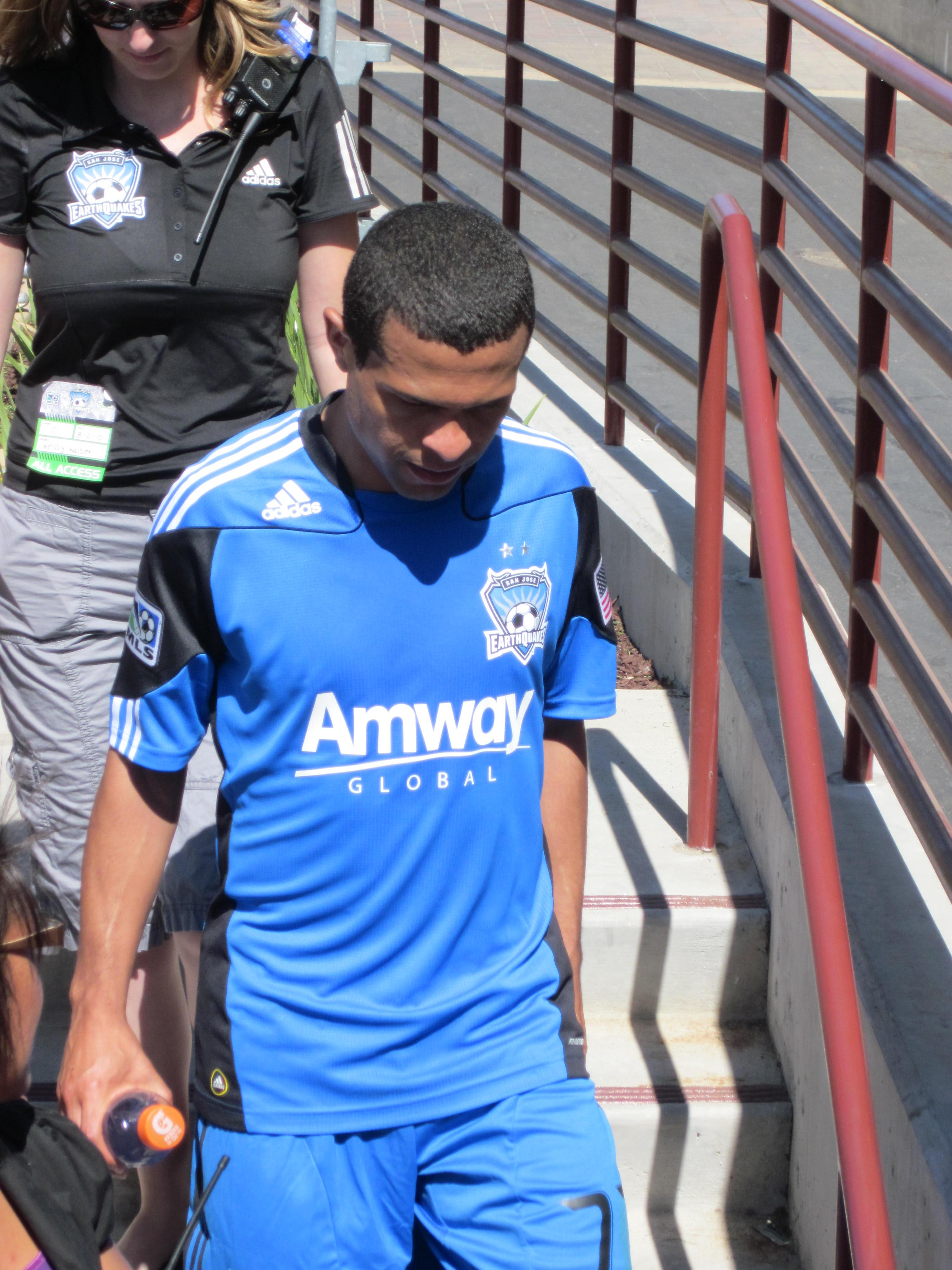 San Jose Earthquakes midfielder Geovanni following his MLS debut in a home game against the LA Galaxy. The Earthquakes won 1-0.